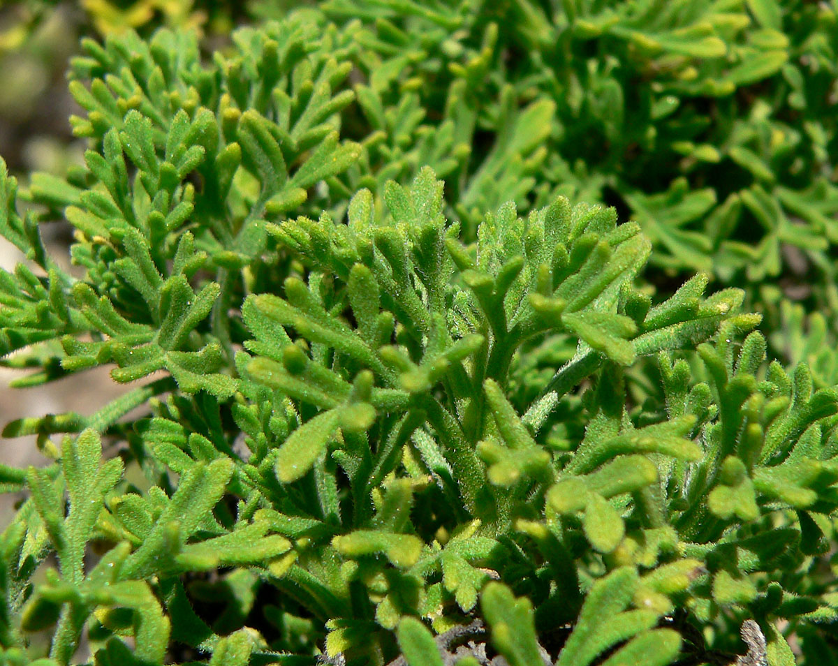 Bahia ambrosioides at the University of California Botanical Garden, Berkeley, California